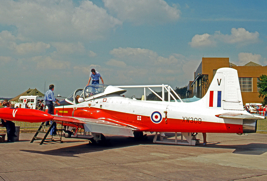 Hunting Percival Jet Provost T.5 XW309 of No.6 Flying Training School at RAF Finningley in 1977